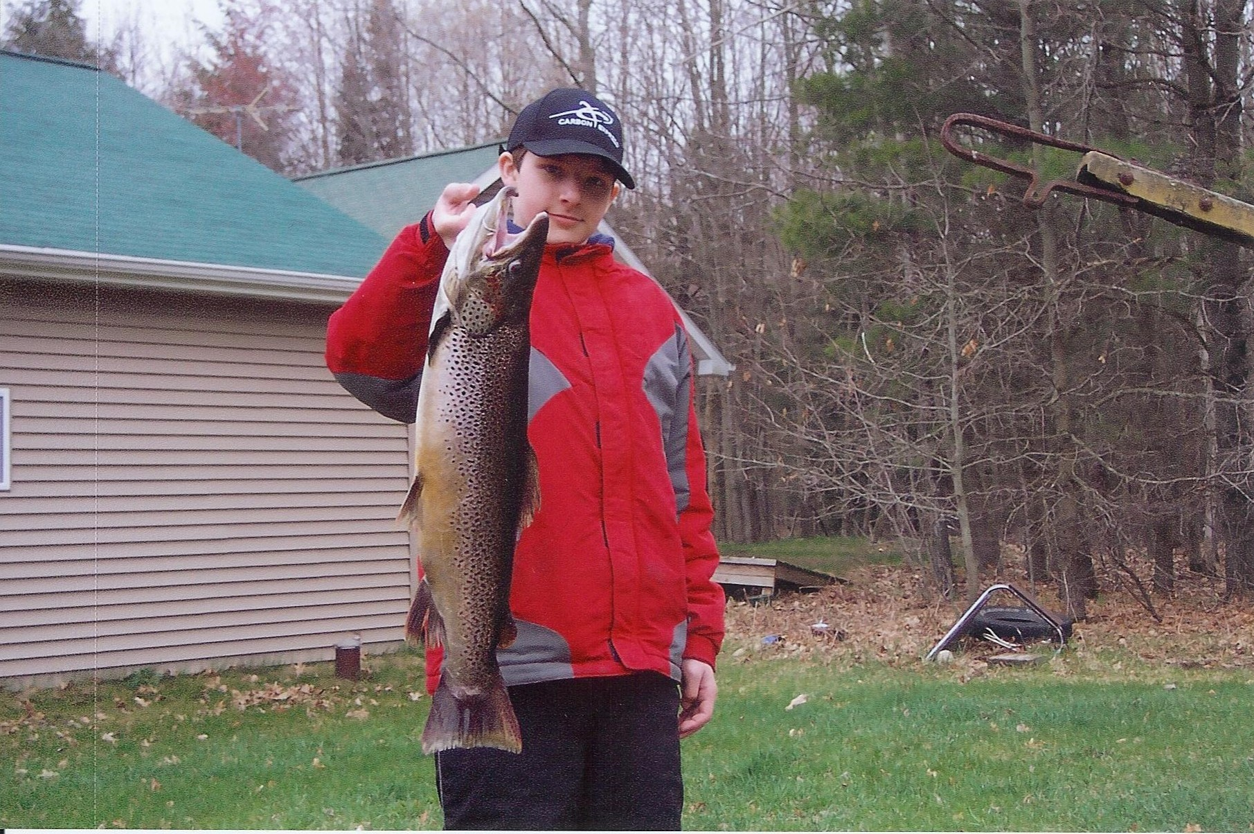 First Brown Trout